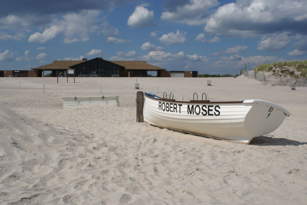 A deserted beach at Robert Moses State Park Field 4